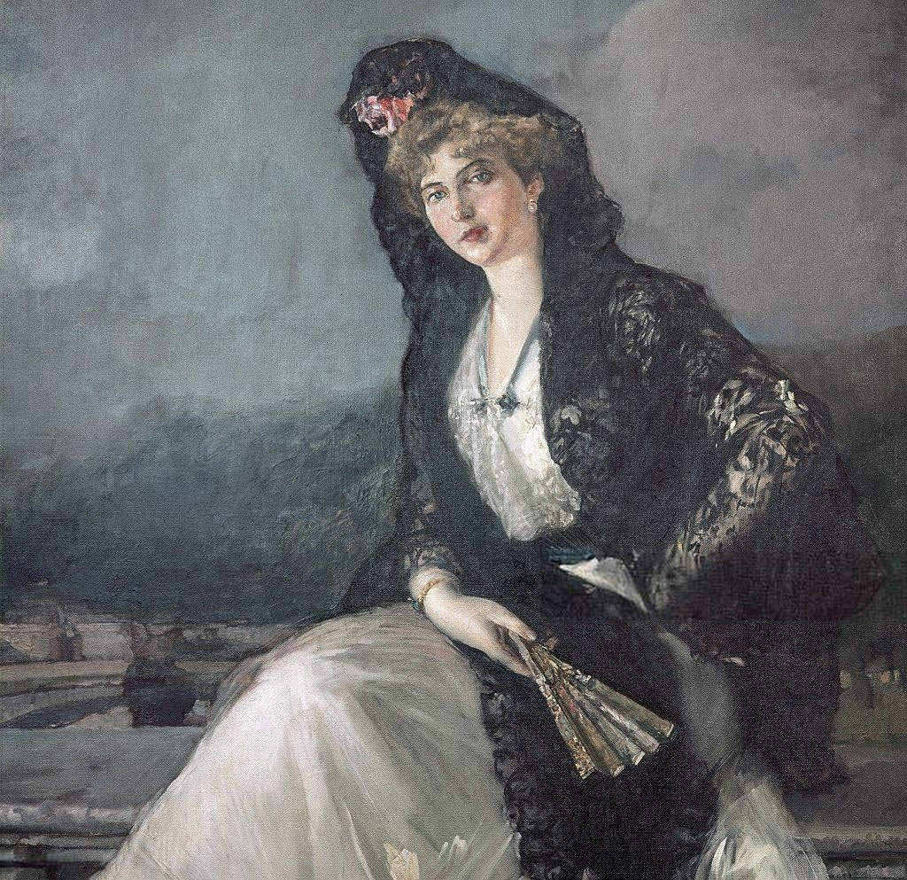 Queen Victoria Eugenie of Battenberg